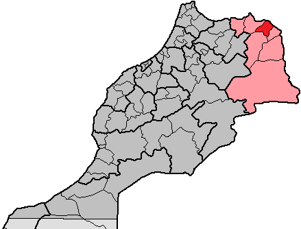 Location of the province Berkane within the region Oriental, Morocco. In total, Morocco has 16 regions, subdivided into 62 provinces and 13 prefectures.